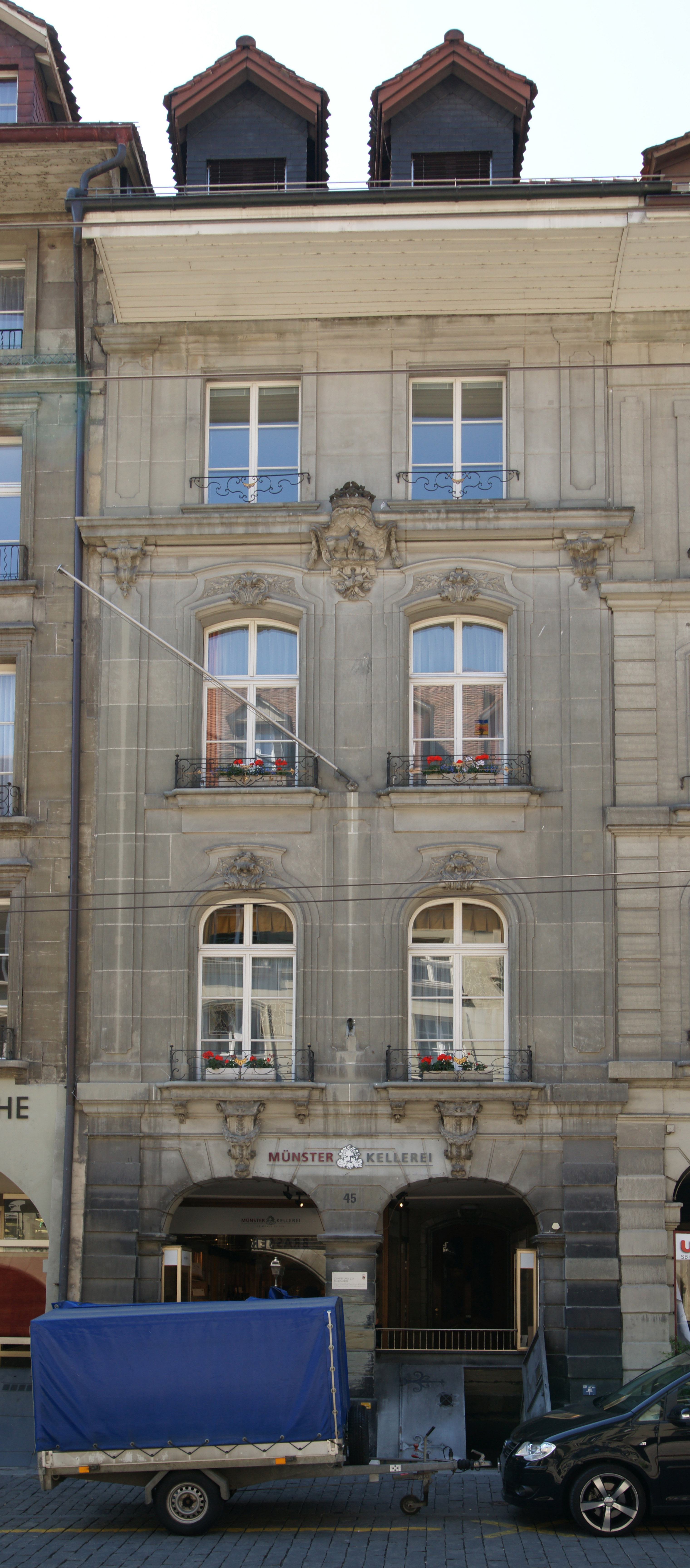 Embassy of Luxembourg on Kramgasse 45, Bern, Switzerland.